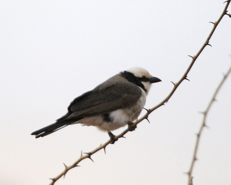 White-rumped Shrike